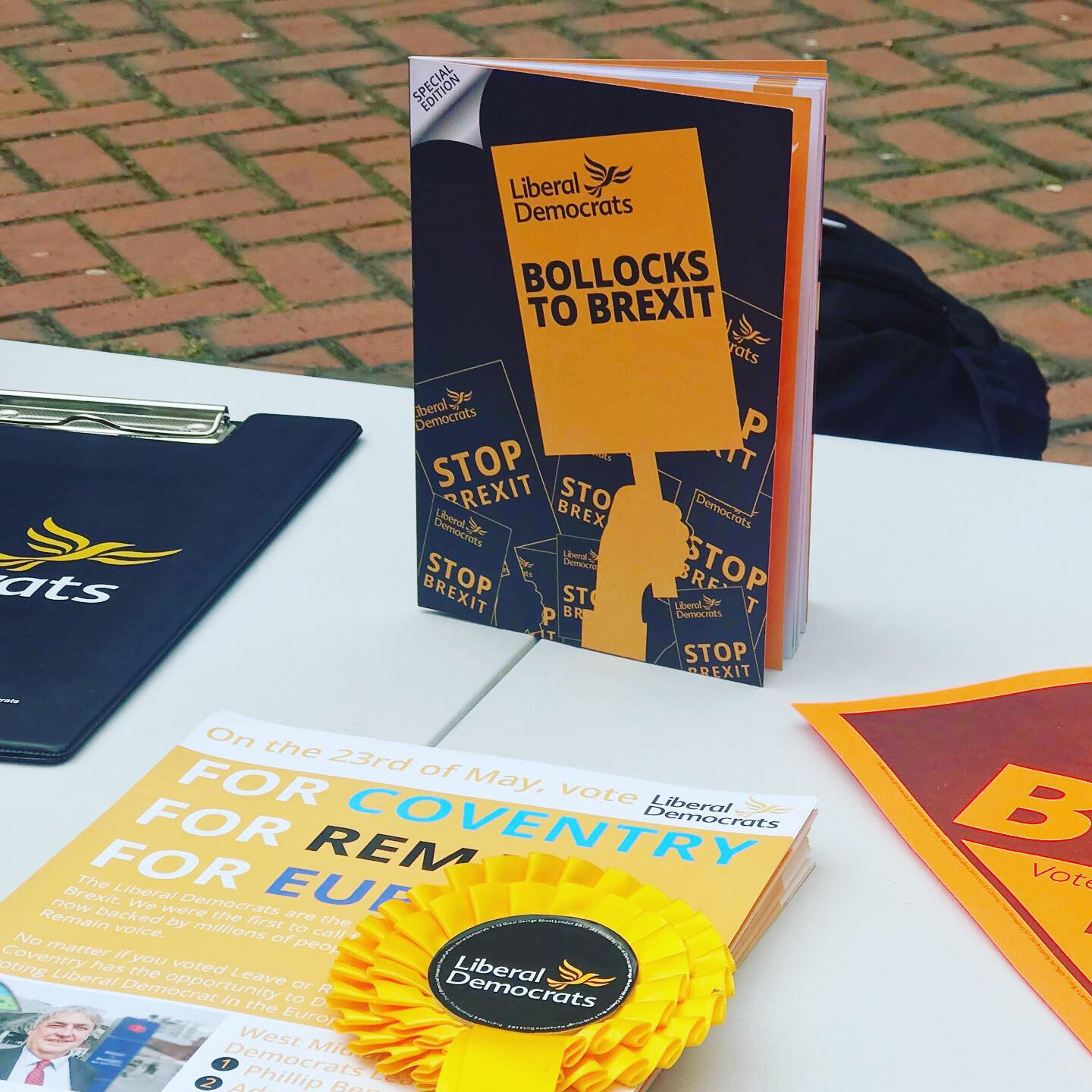 The Liberal Democrats 2019 European Elections manifesto "Bollocks to Brexit" with other campaign materials including a rosette and leaflets.